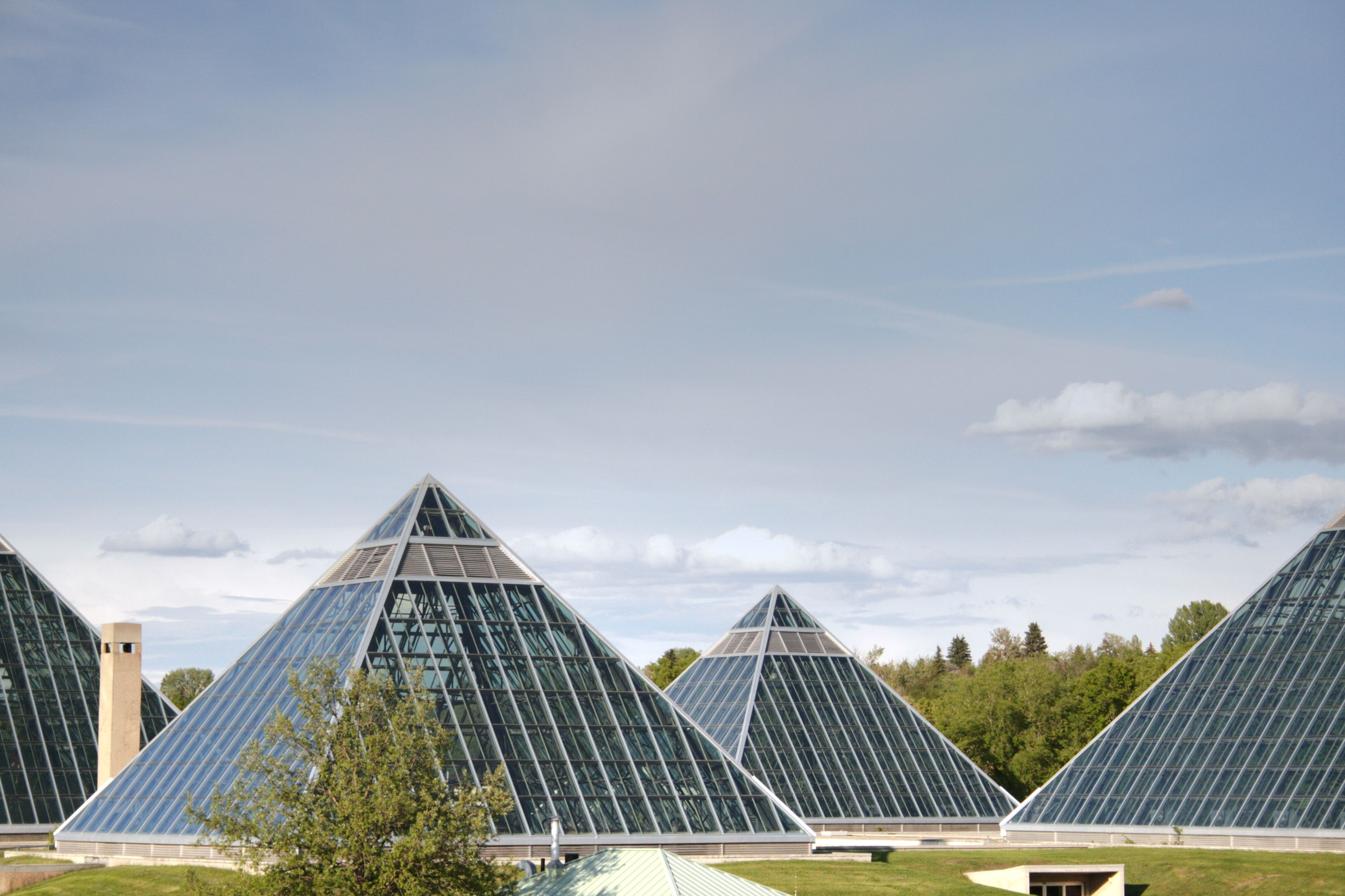 Detail of the Muttart Conservatory, in the river valley of Edmonton, Alberta, Canada.